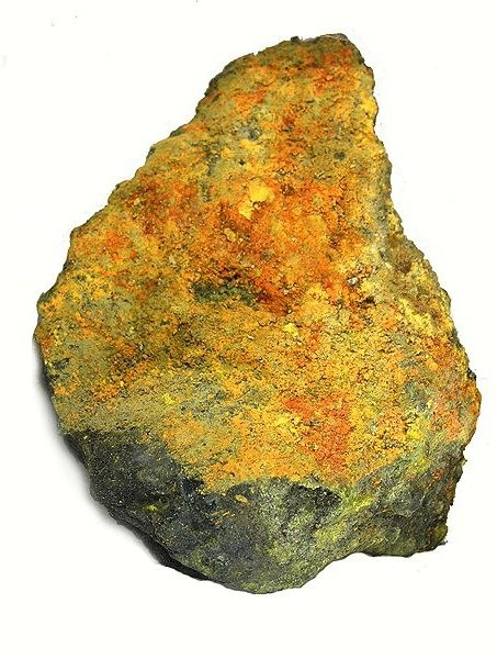 Gummite, Uraninite (Var.: Pitchblende) Locality: Pick's Delta Mine (Delta Mine; Pick's Mine), Delta, San Rafael District (San Rafael Swell), Emery County, Utah, USA (Locality at ) Size: 7.0 x 5.1 x 3.3 cm. Gummite is a rare radioactive mineral, a mixture of uranium minerals, oxides, silicates, hydrates and hydrous oxides of uranium, derived from the alteration of uraninite. It is named for its gum-like consistency. Here you see a layer of yellow-orange gummite on a matrix of pitchblende. Hard to obtain! From the collection of noted California collector Charles Hansen.